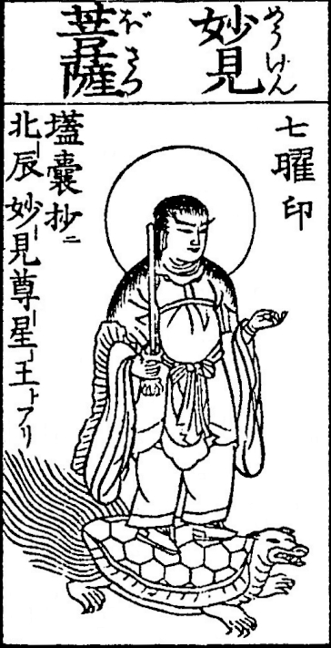 Myōken Bosatsu, from the Butsuzōzui.